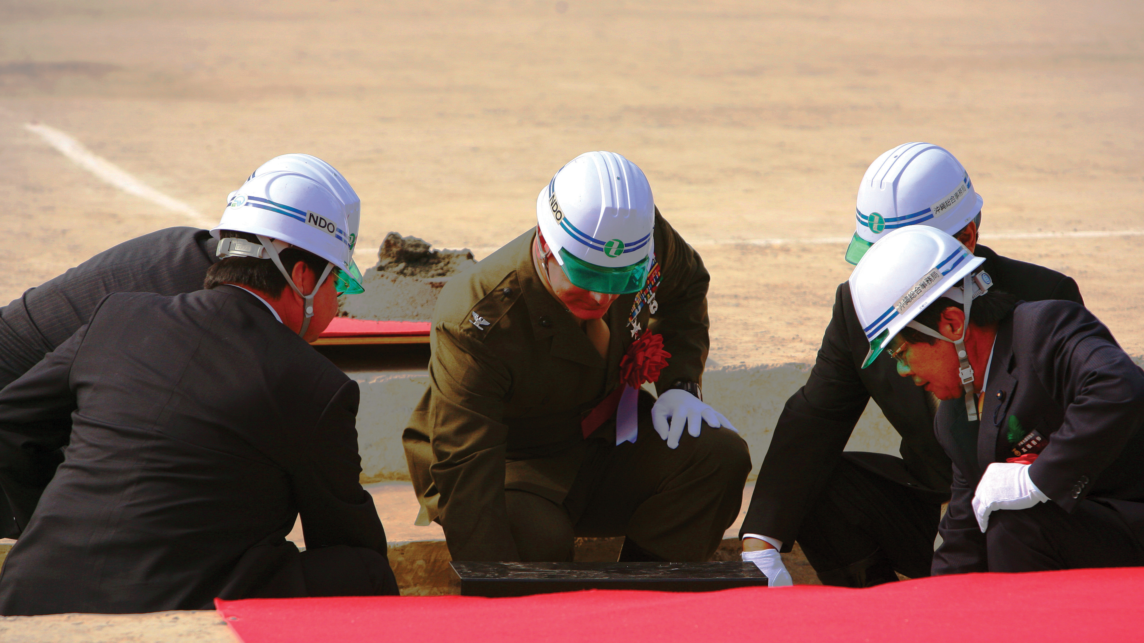 Caption, courtesy of source: "Okinawa - Col. David P. Olszowy, center, commanding officer, III Marine Expeditionary Force Headquarters Group, III MEF, places mortar around a cornerstone with other distinguished guests during a cornerstone burial ceremony at Okukubi Dam in the Central Training Area Feb. 26."